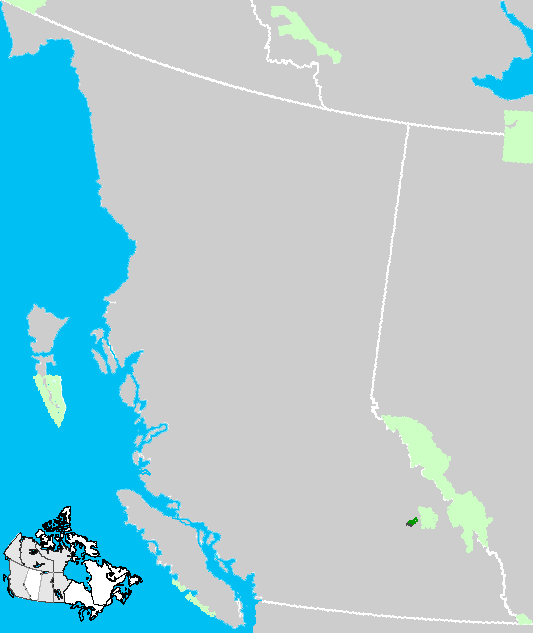 Location of Mount Revelstoke National Park